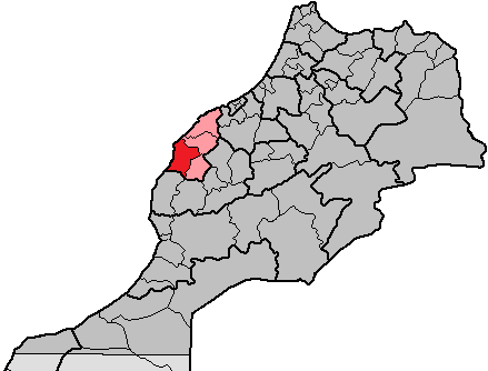 Location of the province Safi within the region Doukkala-Abda, Morocco. In total, Moroco has 16 regions, subdivided into 62 provinces and 13 prefectures.